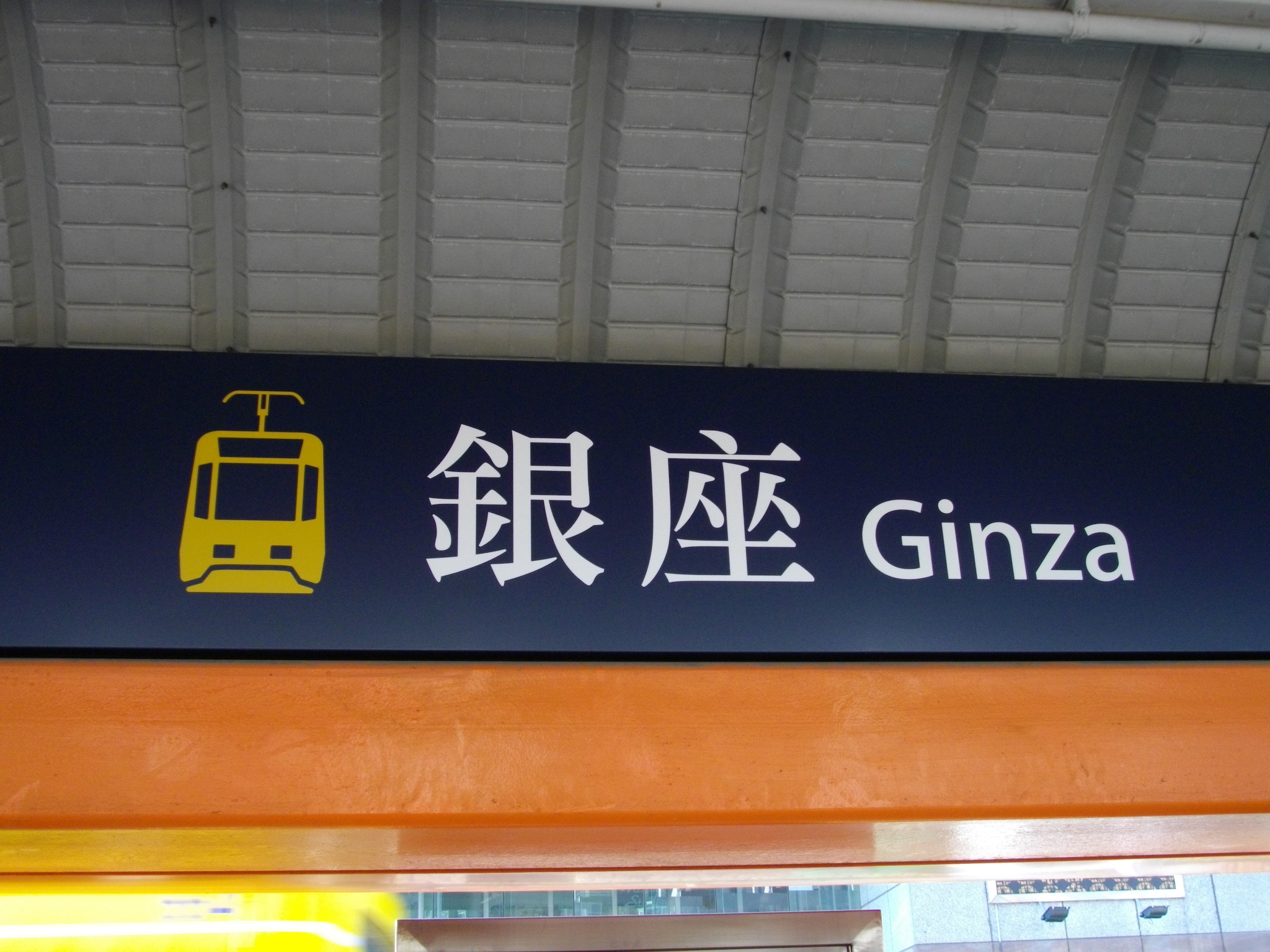 Ginza Stop (Hong Kong)